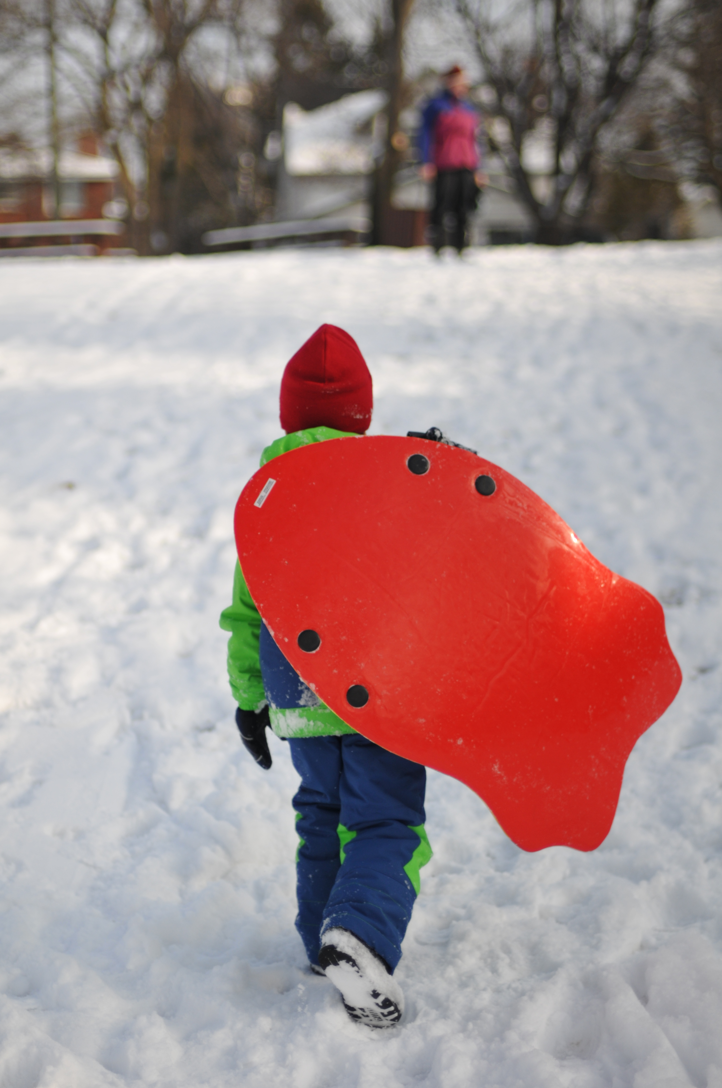 Tobogganing in Ottawa, Canada.